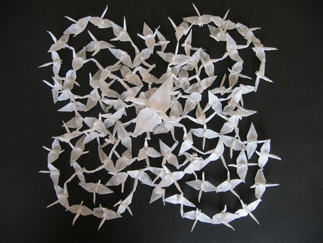 Origami, Renzuru "HYAKKAKU (One hundred cranes)" folded from a single sheet of paper (Intangible cultural properties of Kuwana City, Japan; "KUWANA NO SENBAZURU (The thousand paper cranes of Kuwana)")